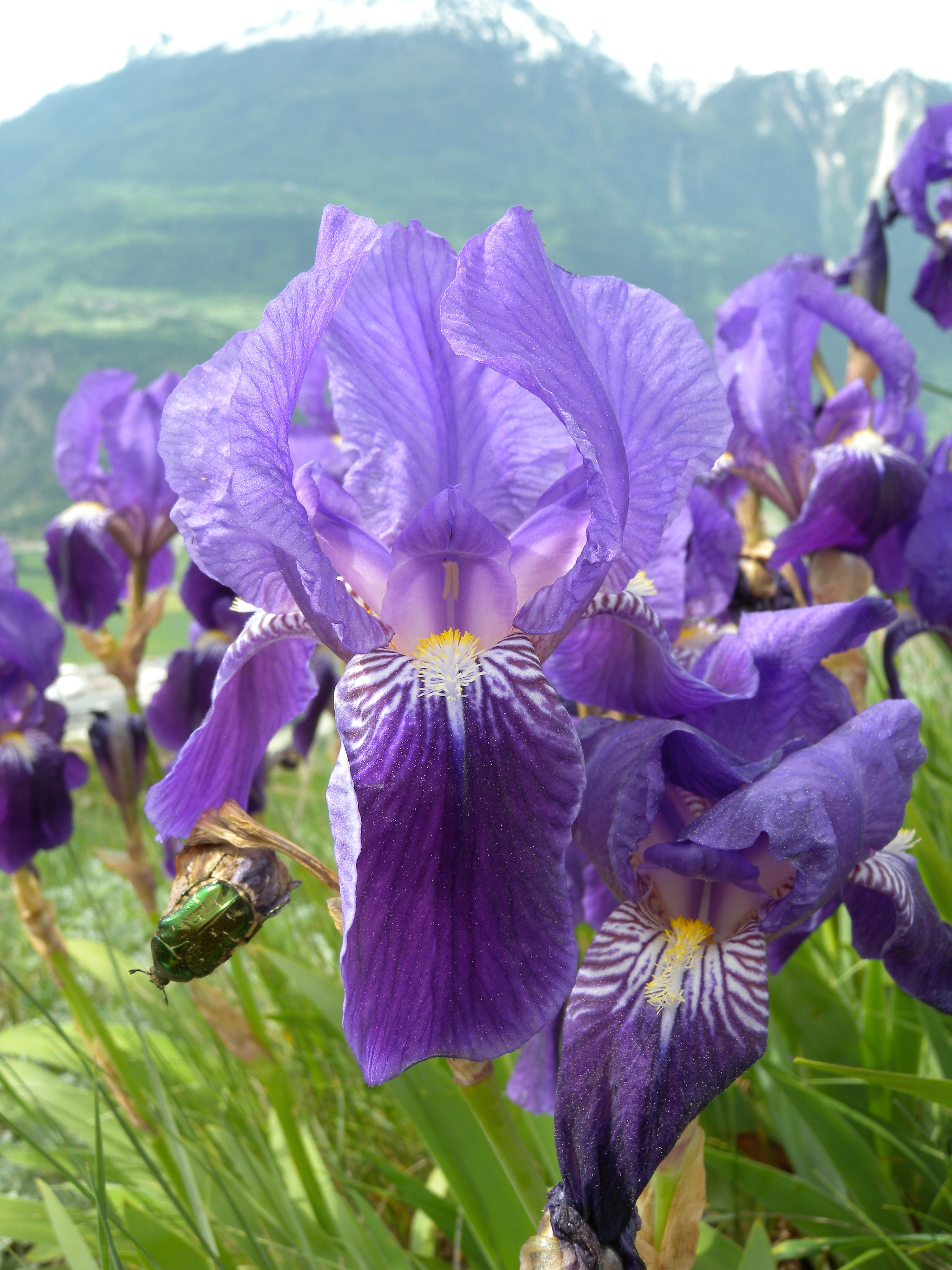 Iris x germanica (Iridaceae); Erschmatt, Canton of Valais, Switzerland